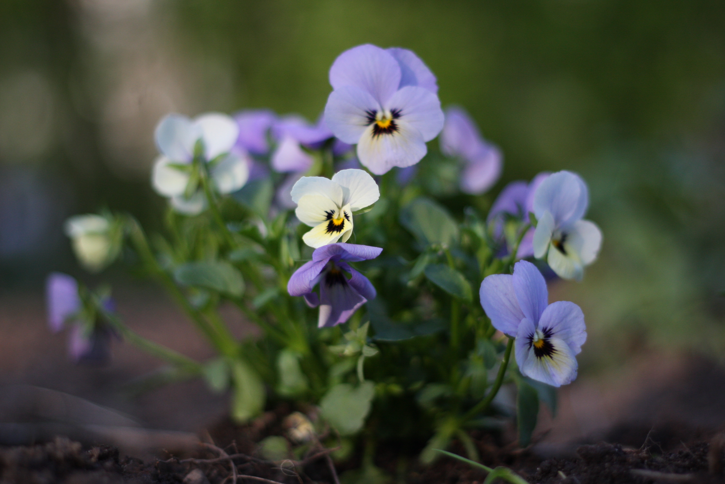 Horned Pansy, Horned Violet, Johnny-Jump-Up, Viola cornuta, Helsinki, Finland.